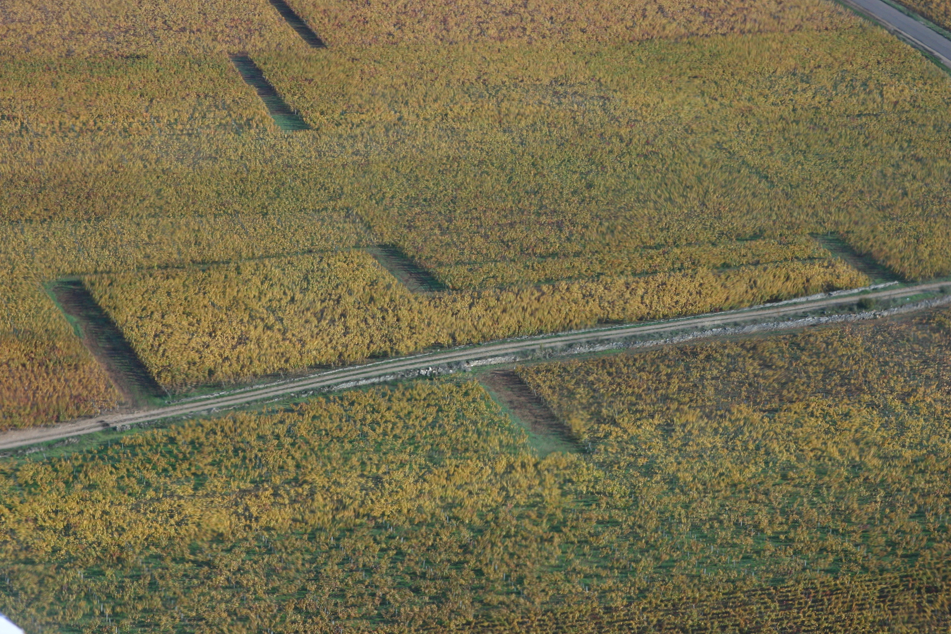 In the French wine region of Burgundy's Cote de nuit